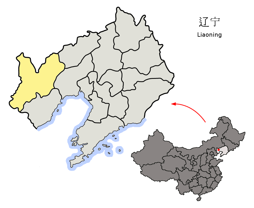 Location of Chaoyang Prefecture (yellow) within Liaoning Province of China Map drawn in november 2007 using various sources, mainly : Liaoning Province administrative regions GIS data: 1:1M, County level, 1990 Liaoning Counties map from